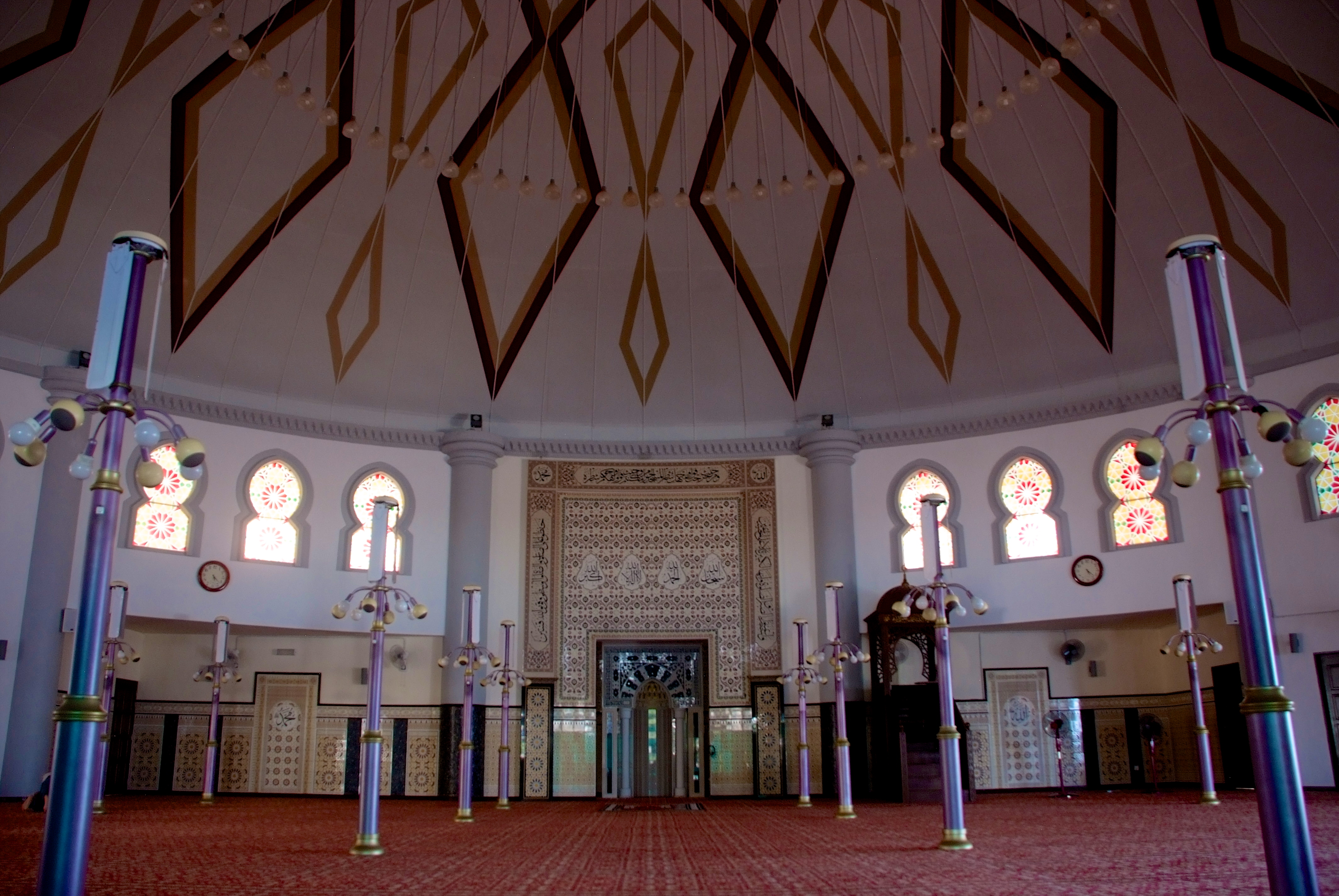 the floating mosque built in Penang Malaysia